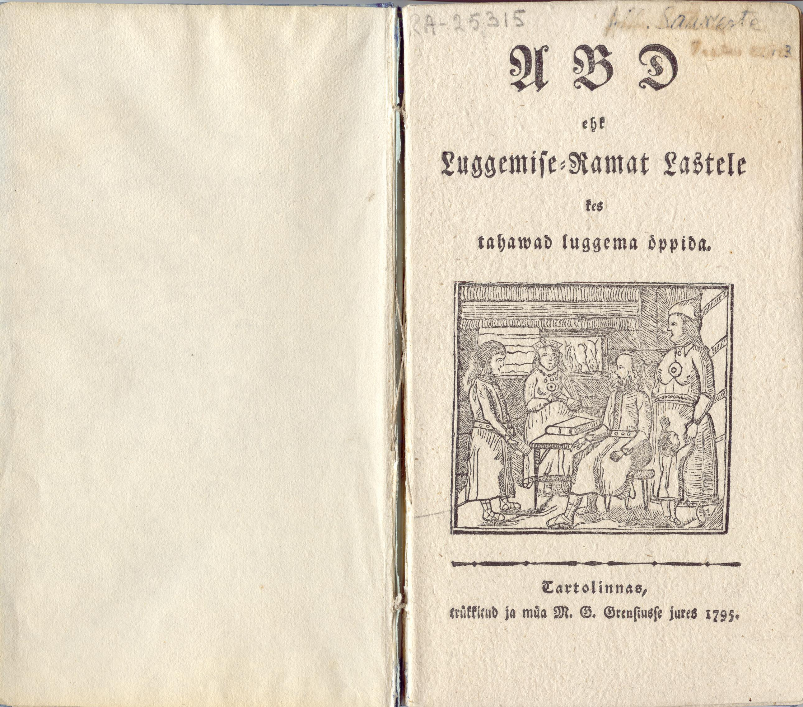 Title page of 'ABD' by Otto Wilhelm Masing. The book having been published in en:1795, it is in public domain. This electronic copy was prepared by EEVA.